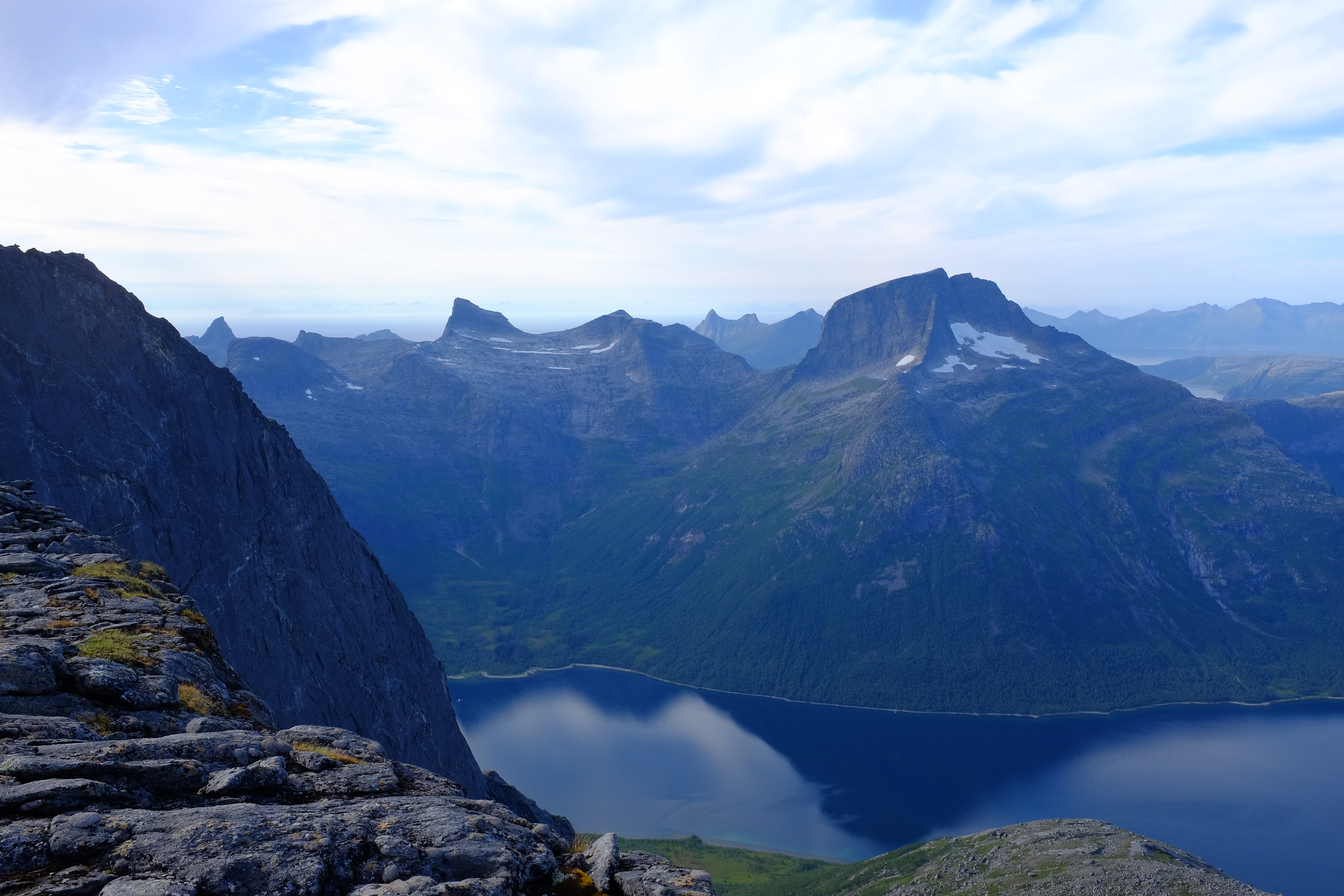 Sjunkhatten and the mountain ridge of Osatinden seen from Sørskarfjellet in Sjunkhatten national park, Bodø and Sørfold, Nordland, Norway.